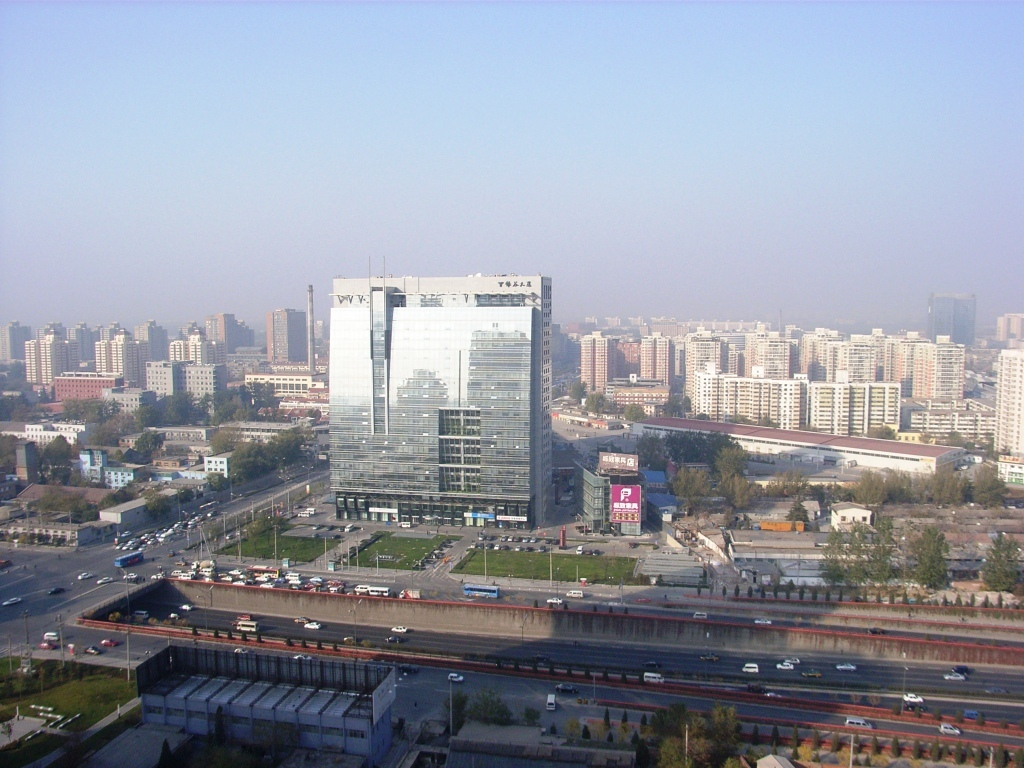 Haidian Beijing. Taken from the Royal King Hotel across the 4th Ring Road.